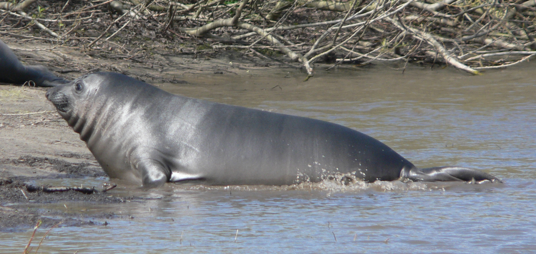 Northern elephant seal (Mirounga angustirostris), March 13, 2006, Año Nuevo reserve, California, USA